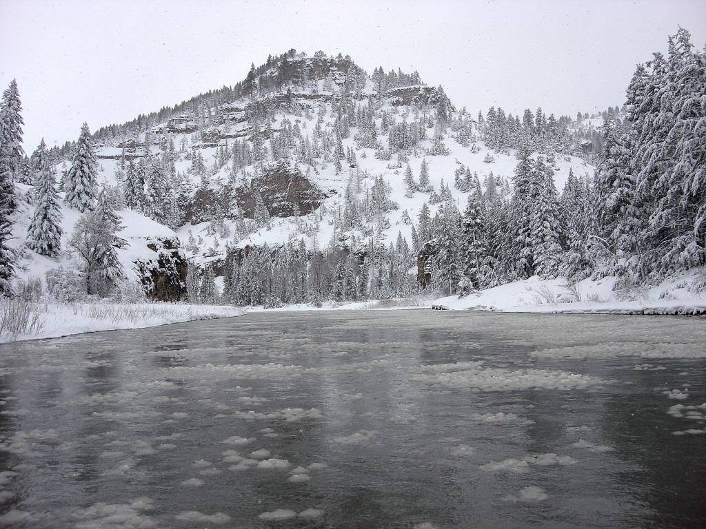 Early season work trip on the Smith River, 2010